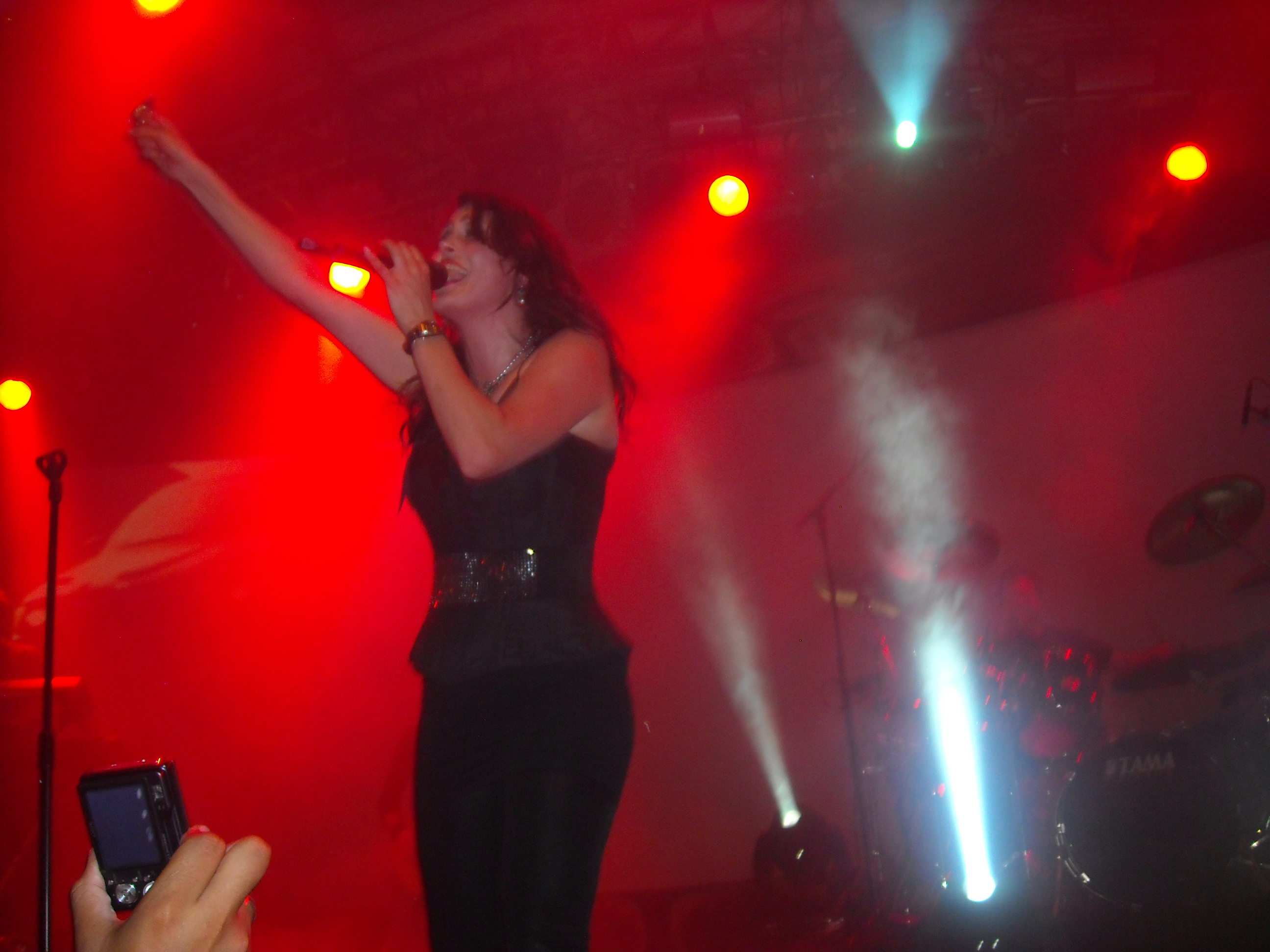 Sharon den Adel performing in Rio de Janeiro